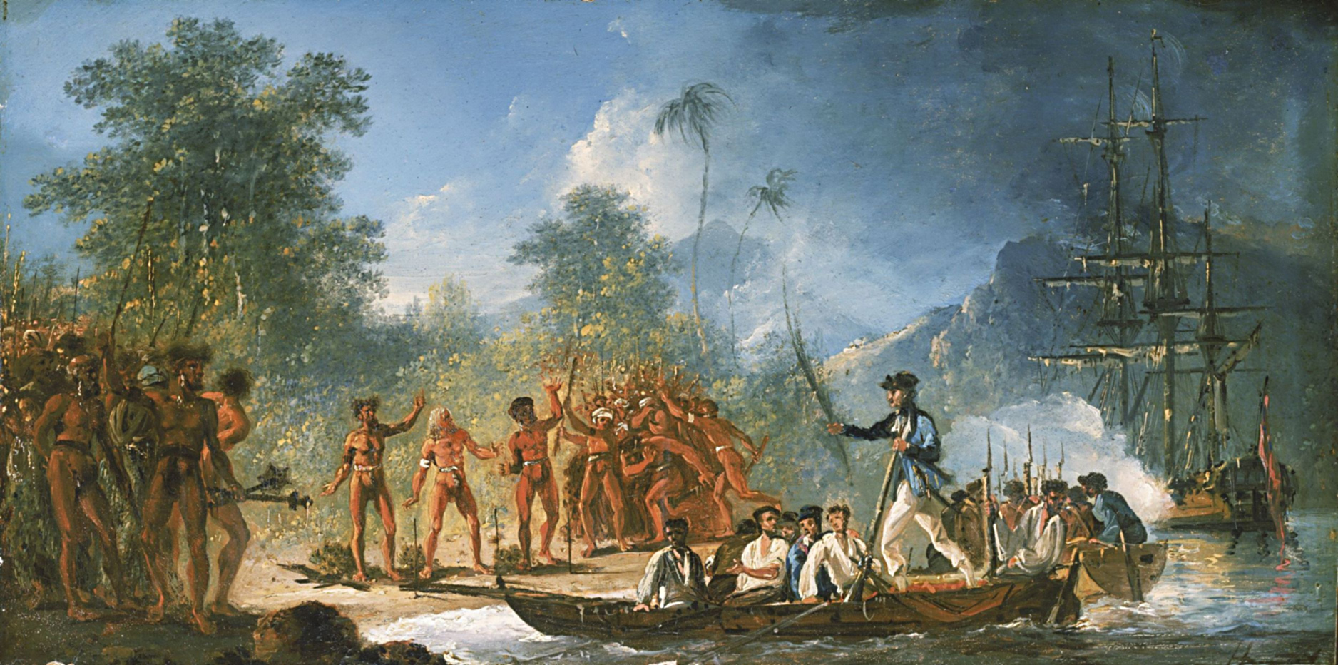 The Landing at Tana one of the New Hebrides. Oil on panel, by William Hodges.l The present day Tanna island, in the nation of Vanuatu.